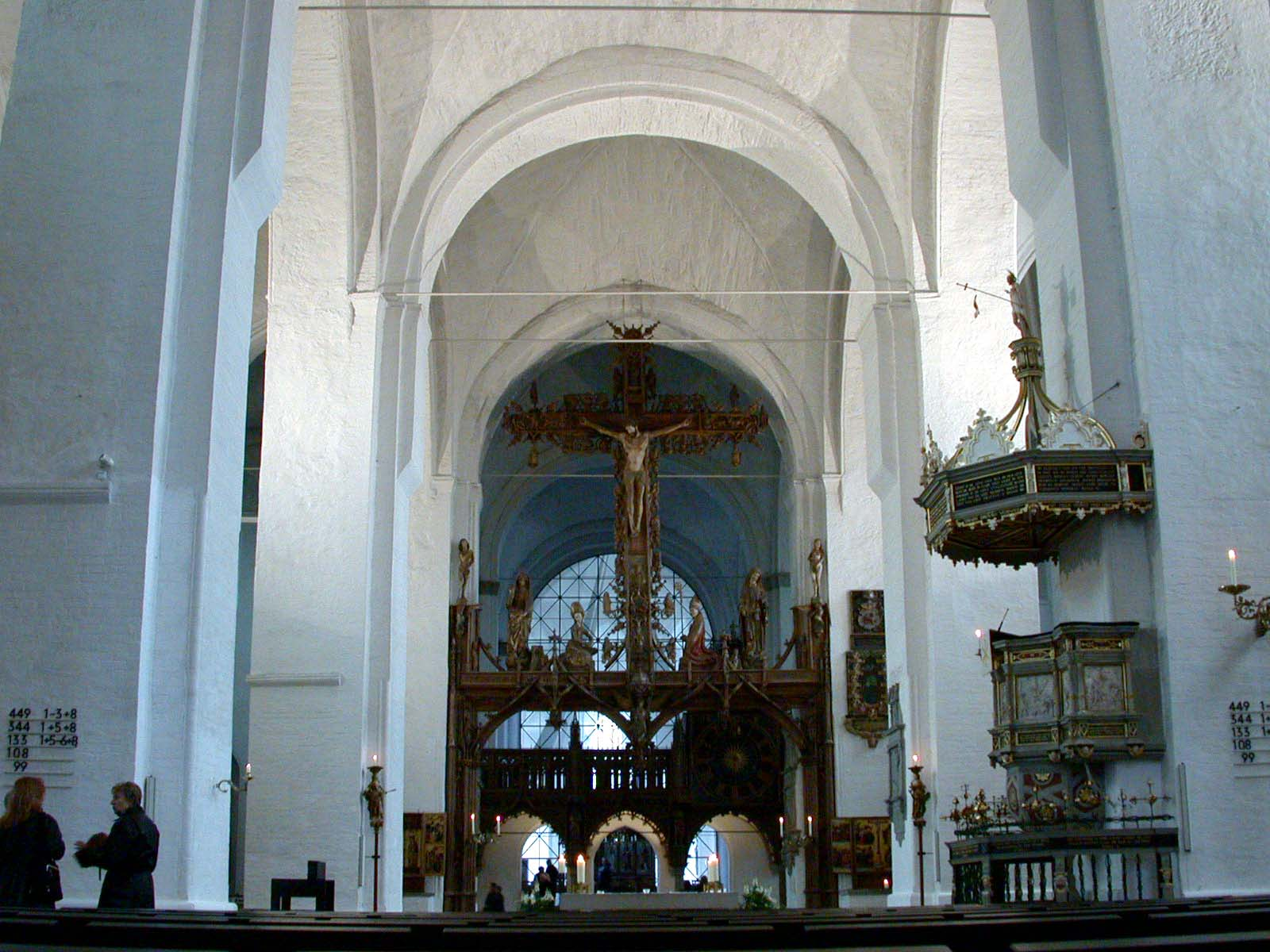 Lübeck Cathedral Interior